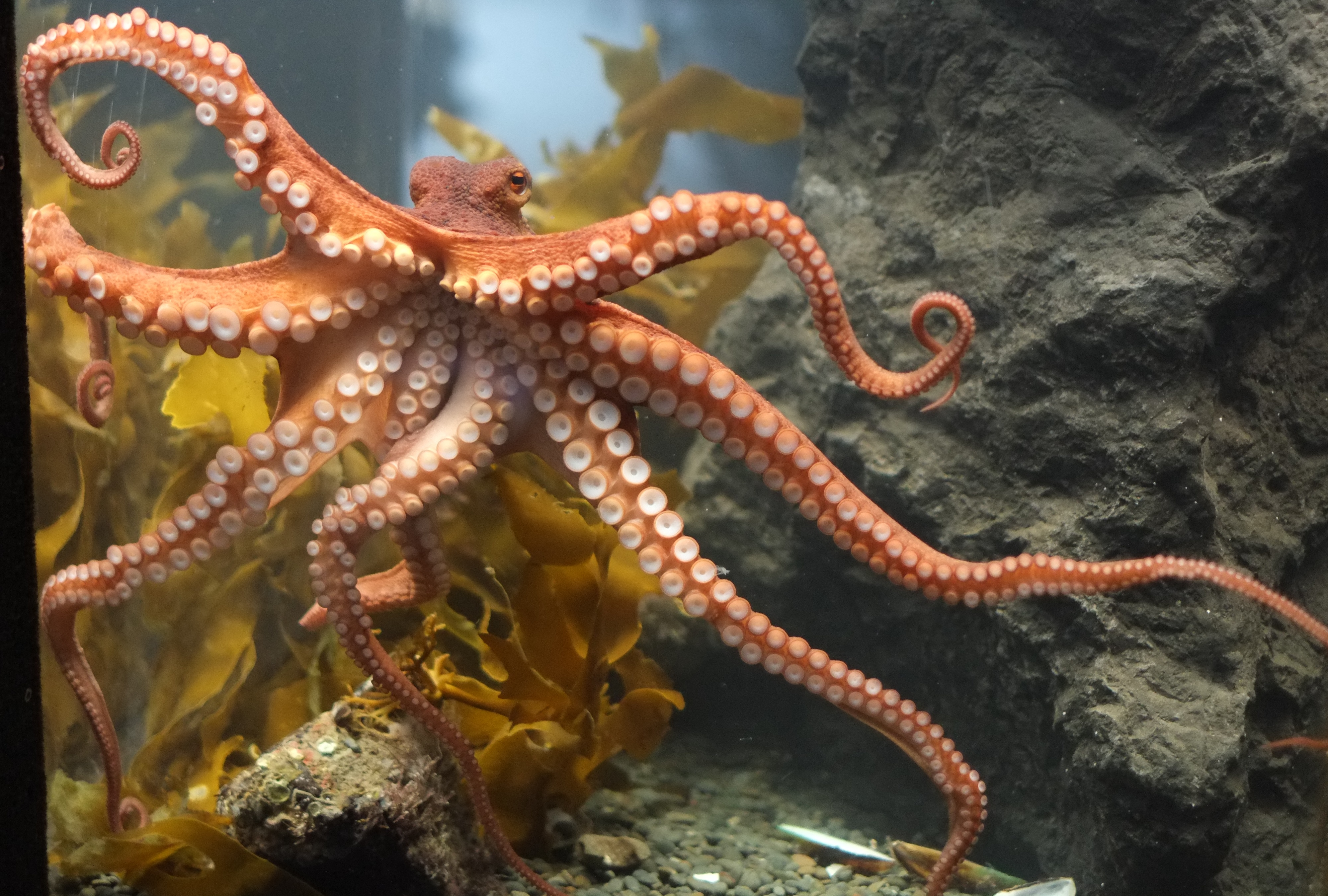 Octopus at Kelly Tarlton's